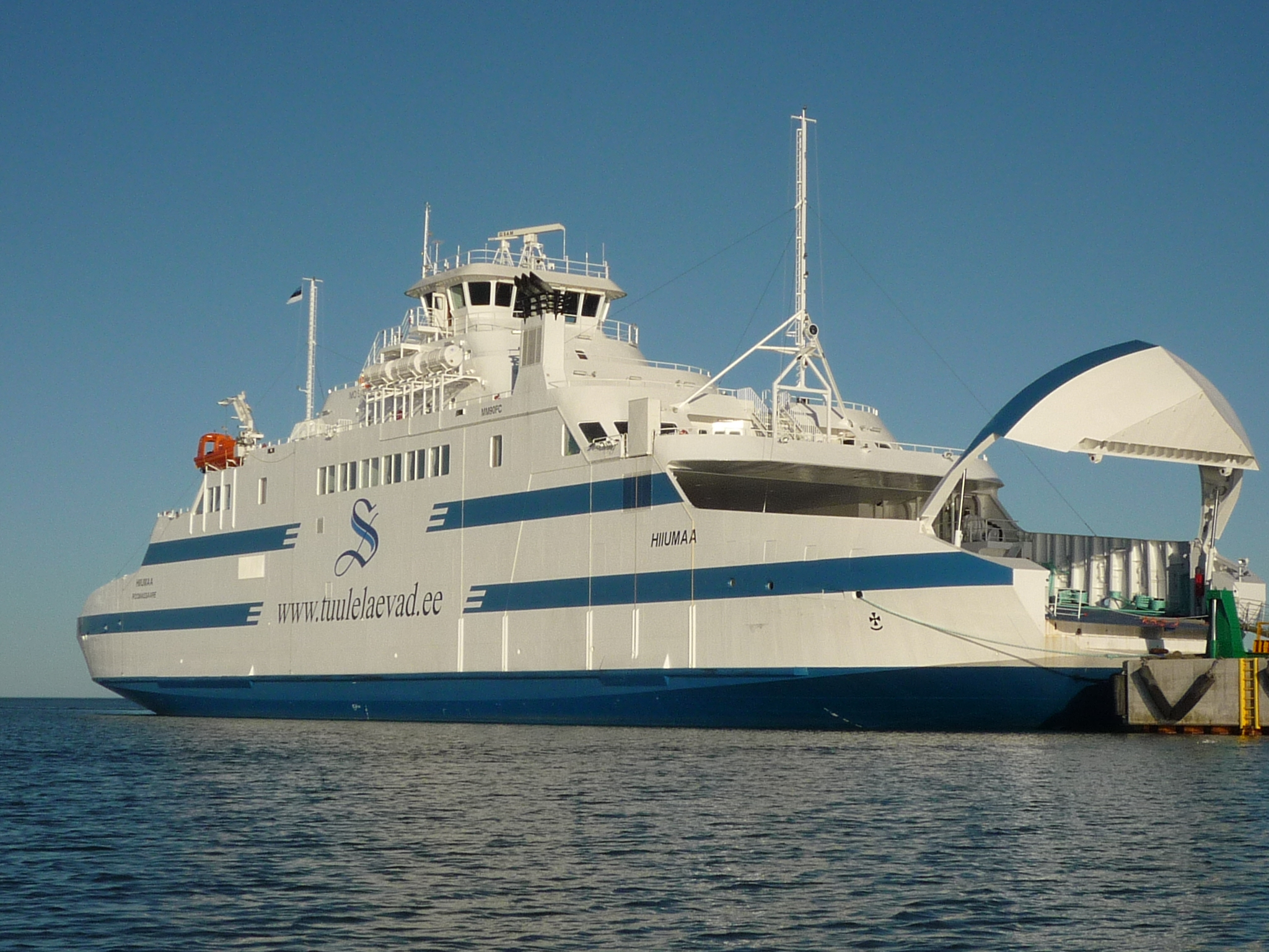 Ferry Hiiumaa. Heltermaa port, Hiiu county, Estonia.